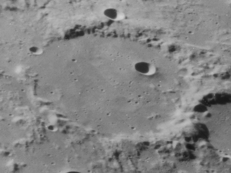 Oblique view of Arnold crater, facing northwest, on the moon.